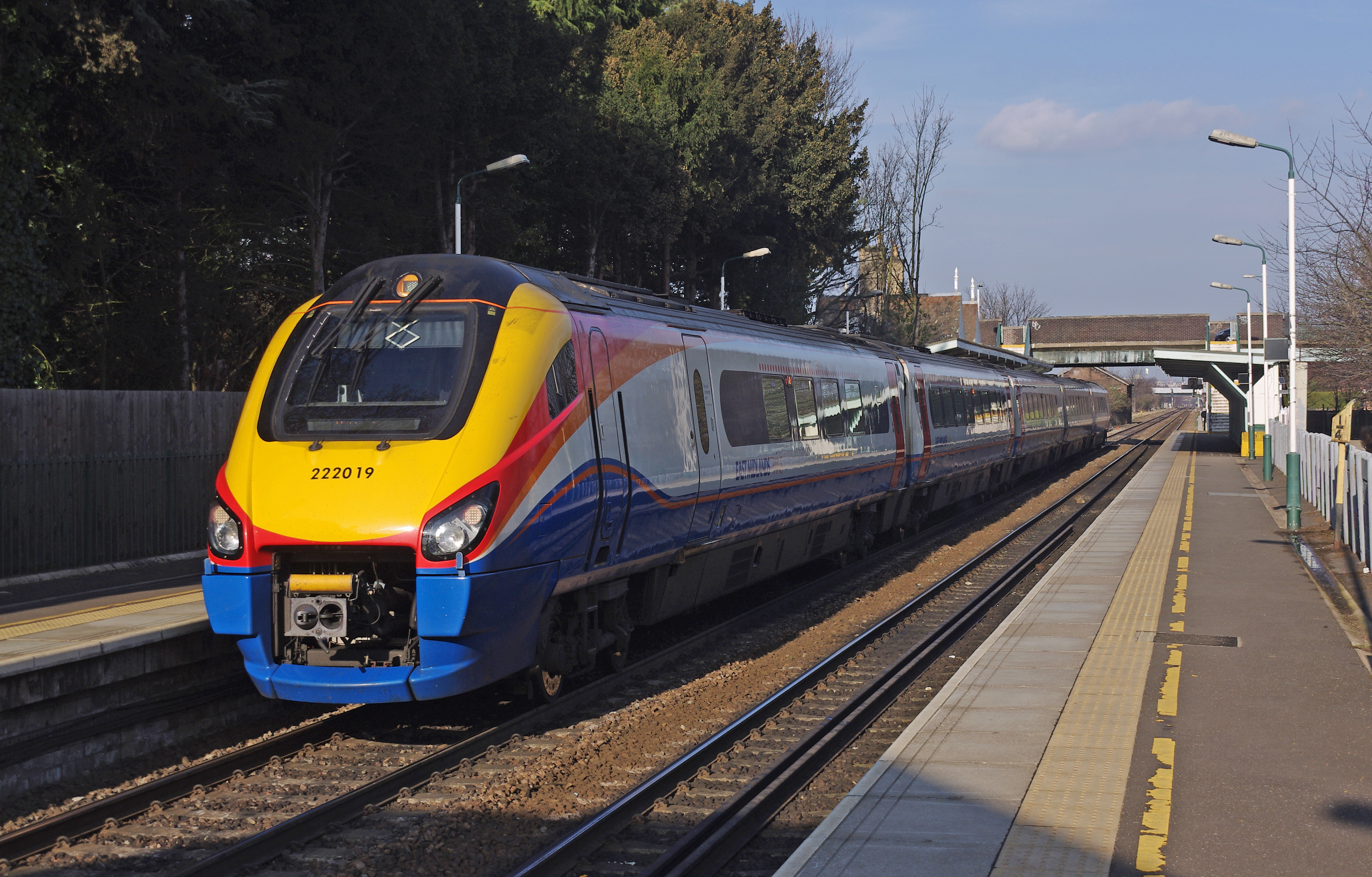 East Midlands Trains Meridian DEMU 222019 stands at Beeston with a London-Nottingham service.